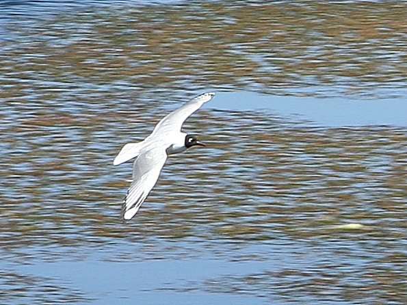 Andean Gull (Larus serranus), Chile, above 4000 m ASL